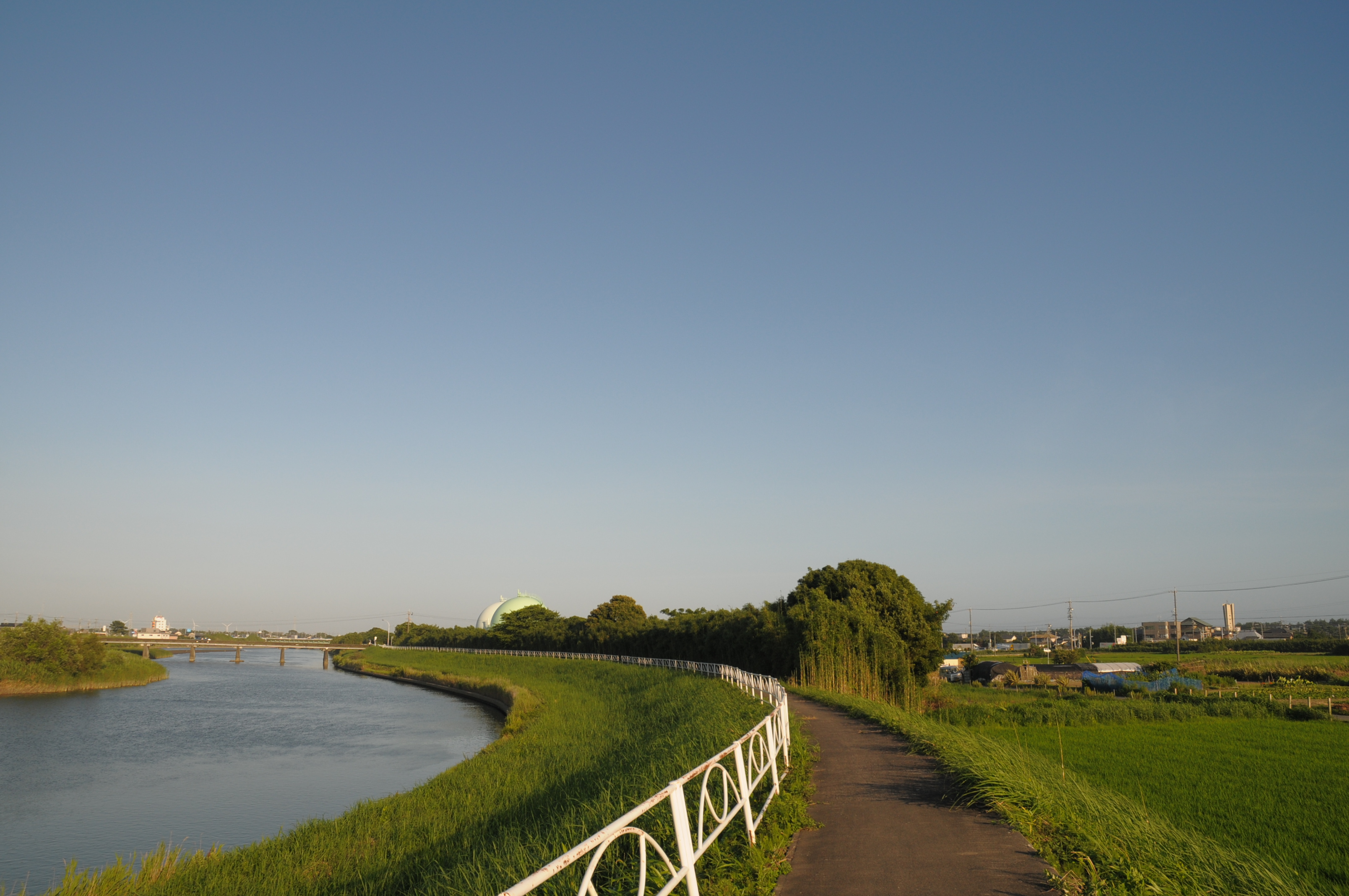 Magome River, Hamamatsu, Shizuoka